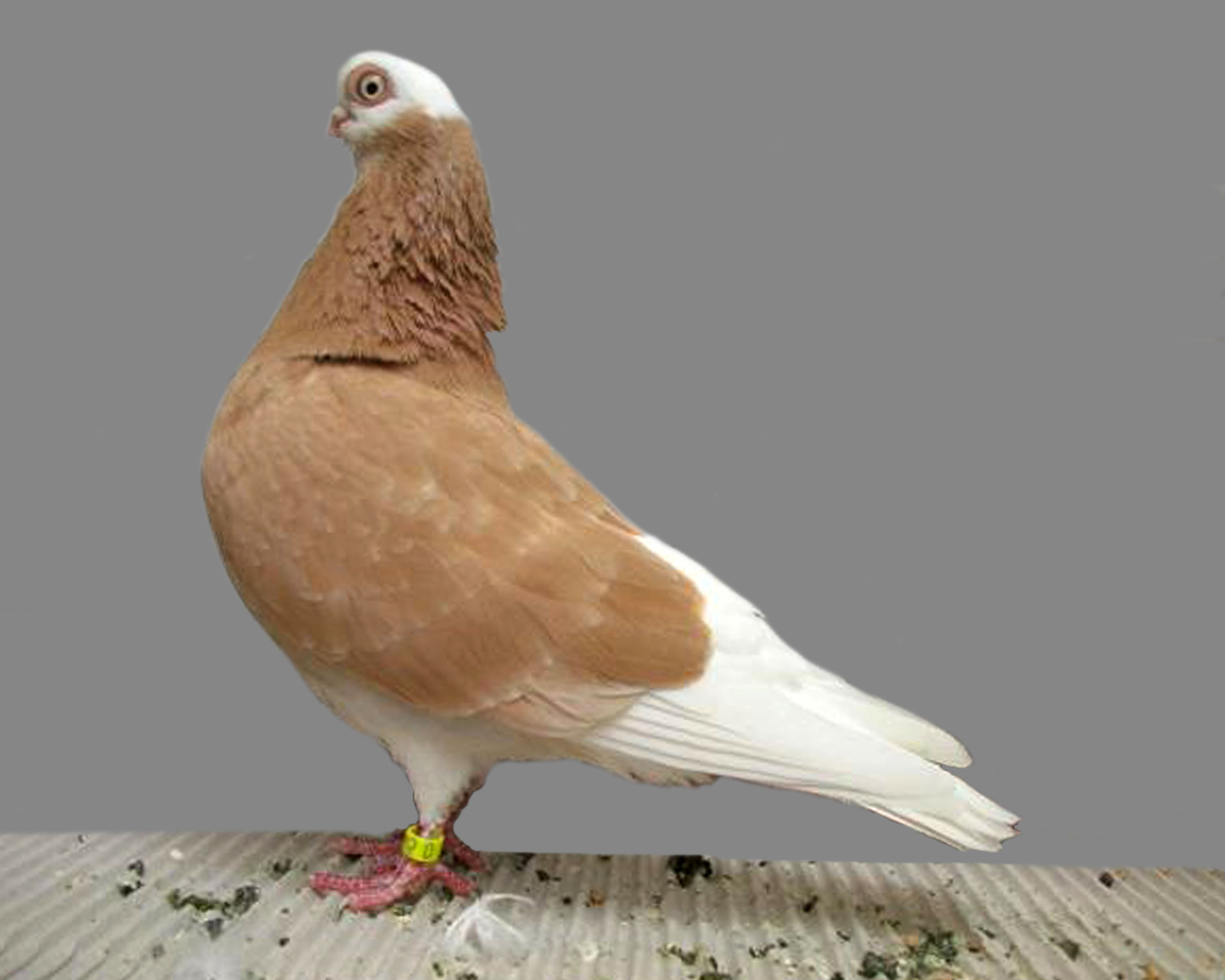 Ebling Whitehead Tumbler (Yellow)